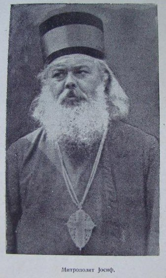 Metropolitan Joseph, Serbian bishop of Skopje 1932-1957